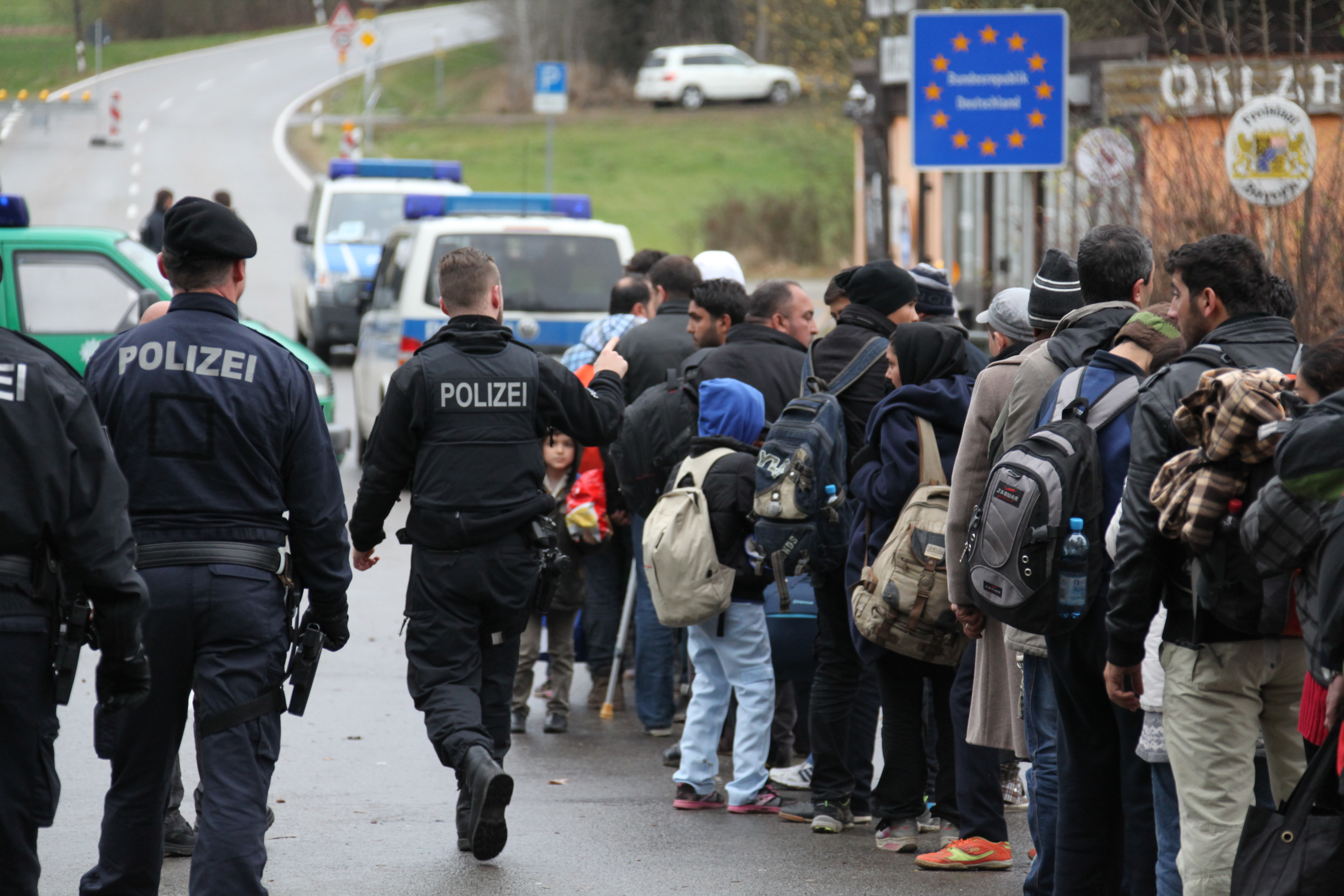 Grenzübergang Oberösterreich / Deutschland Immigrantenabfertigung 17.11.2015 - WEGSCHEID-HANGING Personality rights warning Although this work is freely licensed or in the public domain, the person(s) shown may have rights that legally restrict certain re-uses unless those depicted consent to such uses. In these cases, a model release or other evidence of consent could protect you from infringement claims.